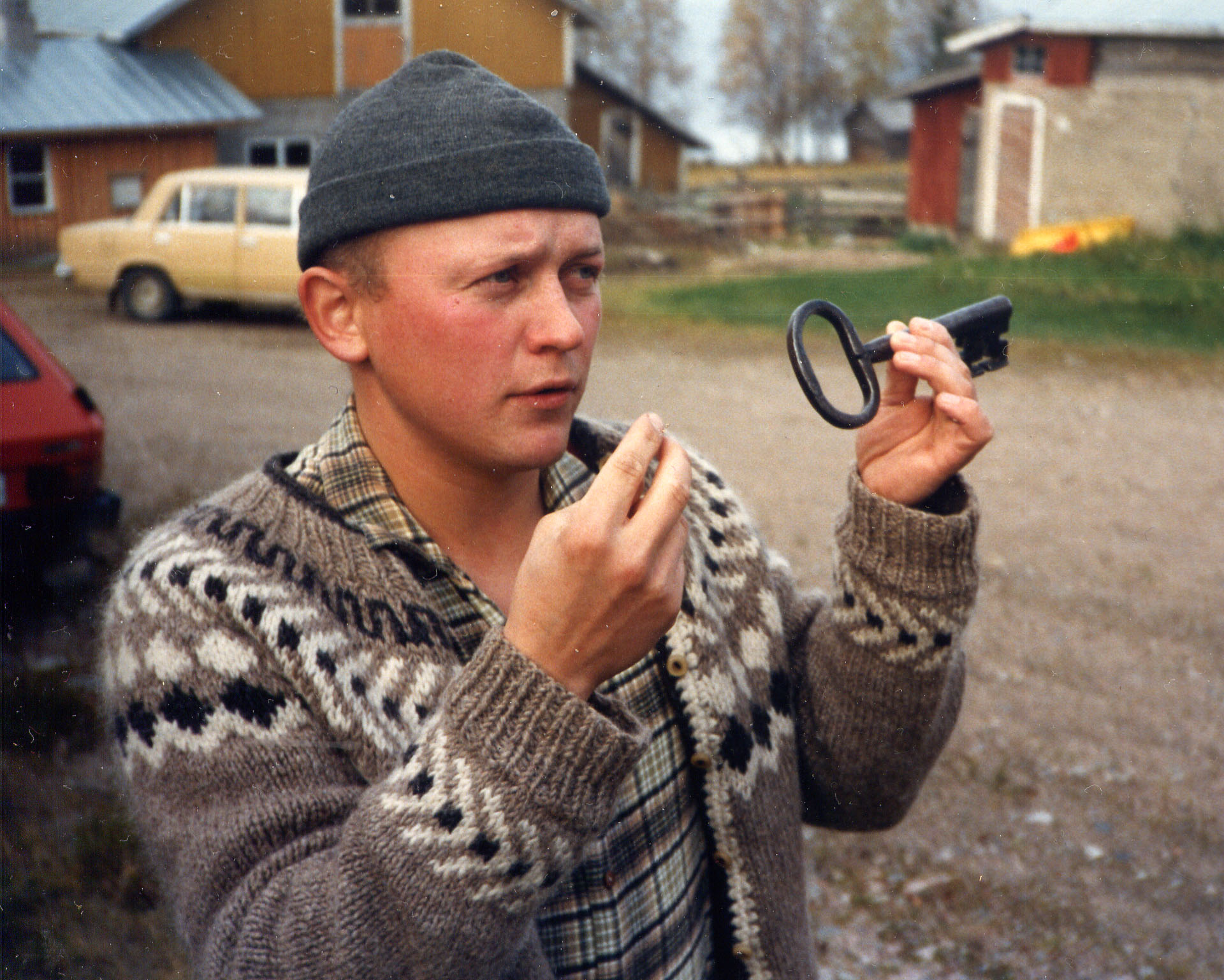 Mr Ossi-Ensio (Osmo) Korvua at his home yard- probably between 1980-1985